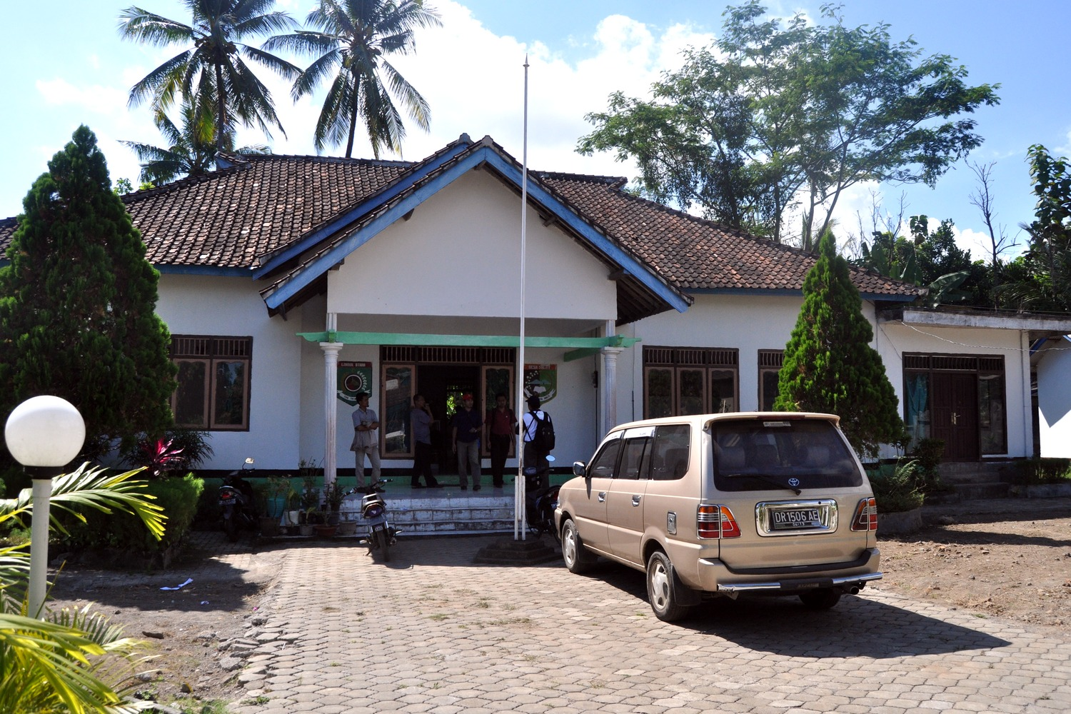 Salut Village office, Noth Lombok, Indonesia